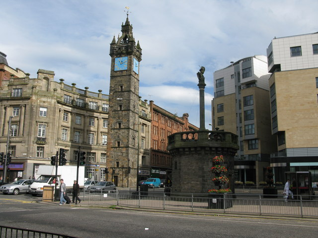 Glasgow Cross This shows the 2 prominent features of Glasgow Cross, the Tolbooth Steeple, a seven storey building which was once part of the larger building, the Tolbooth, and the Mercat Cross which was built in 1929.